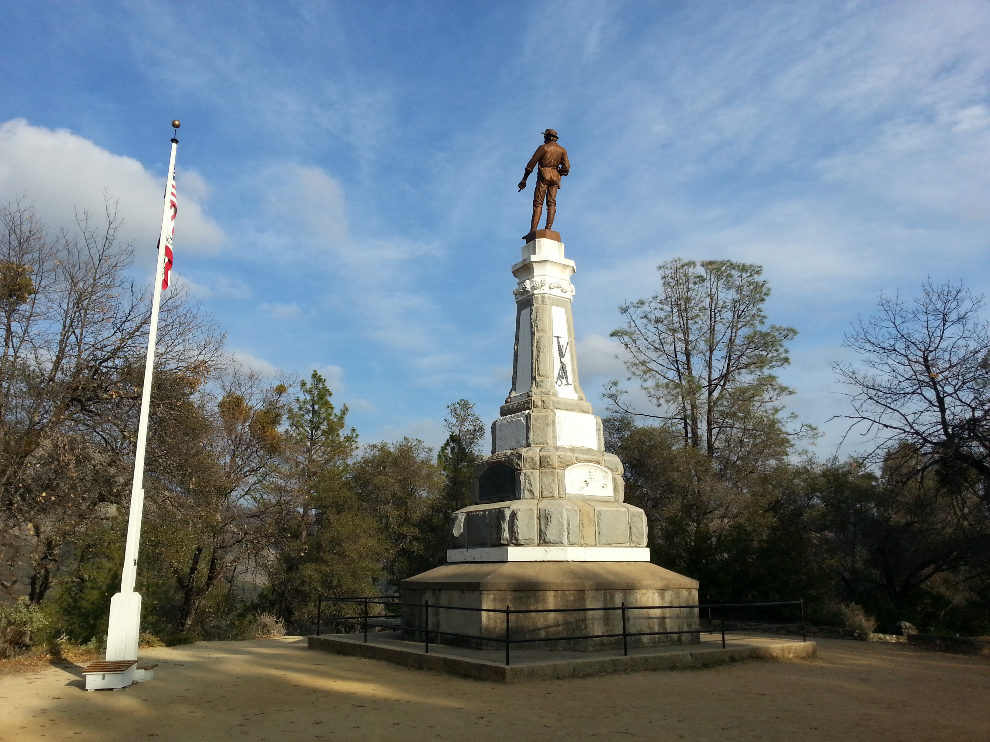 Marshall monument, Coloma, 7 mi. NW of Placerville on CA 49 Placerville